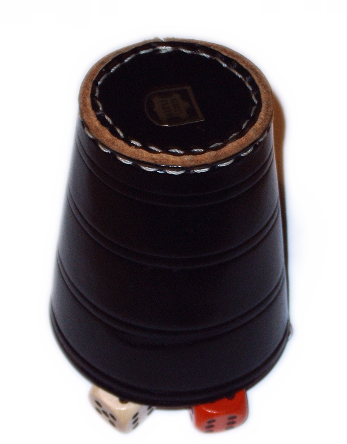 Dice box, in action, Photographed by myself.